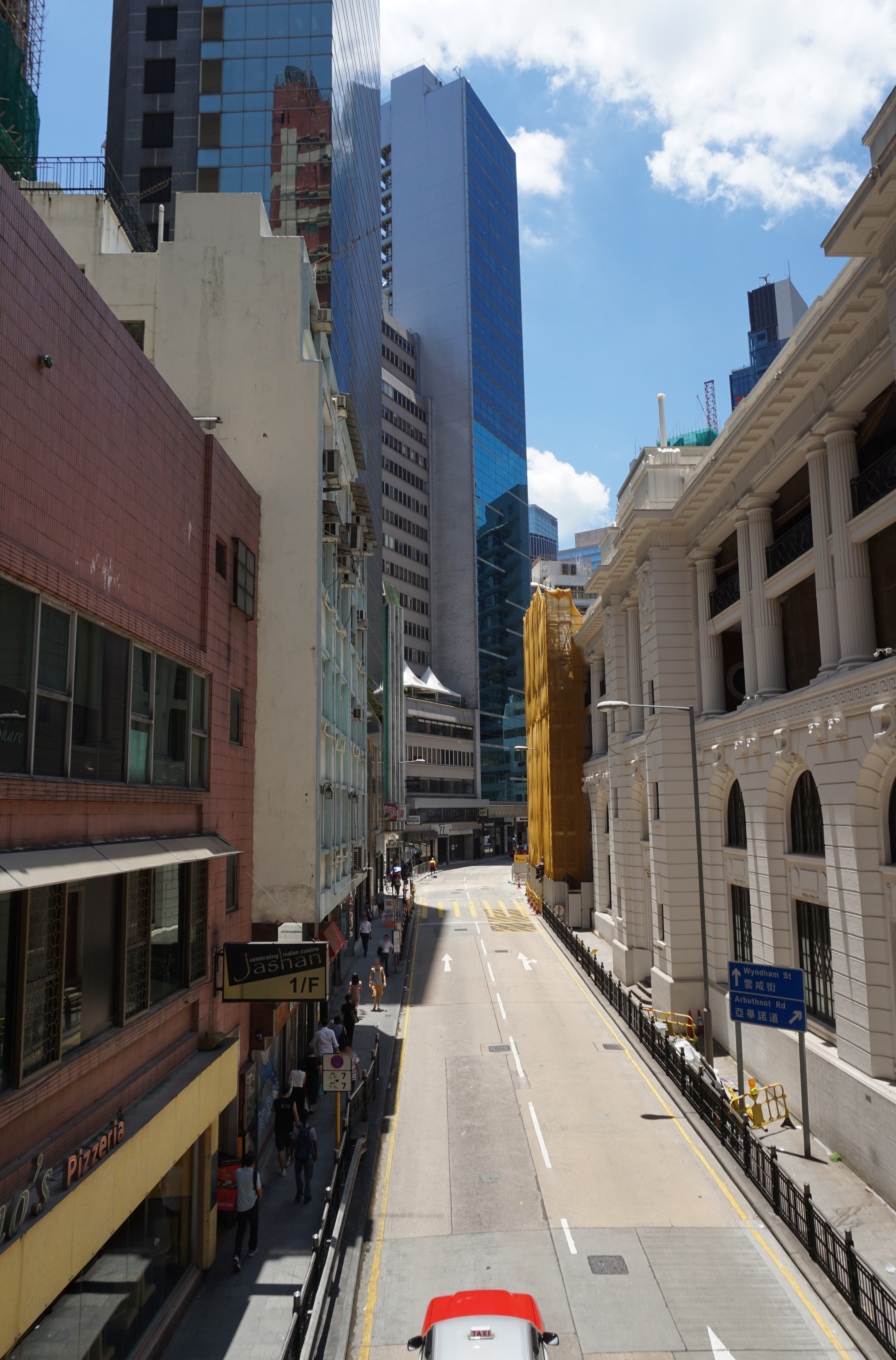 Hollywood Road in Central, Hong Kong.